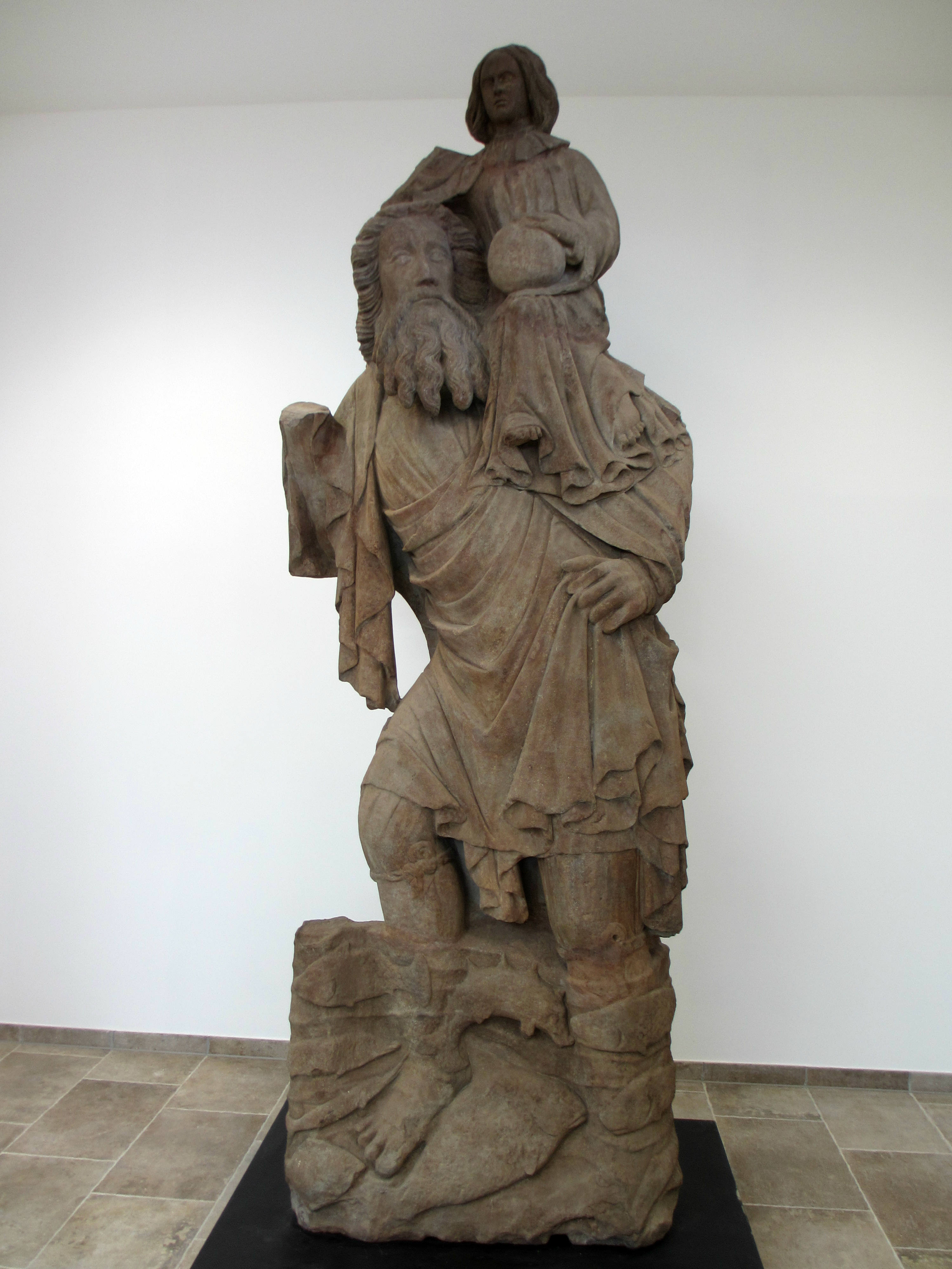 Photograph of the Statue of St Christopher in Norton Priory Museum, Runcorn, Cheshire, England